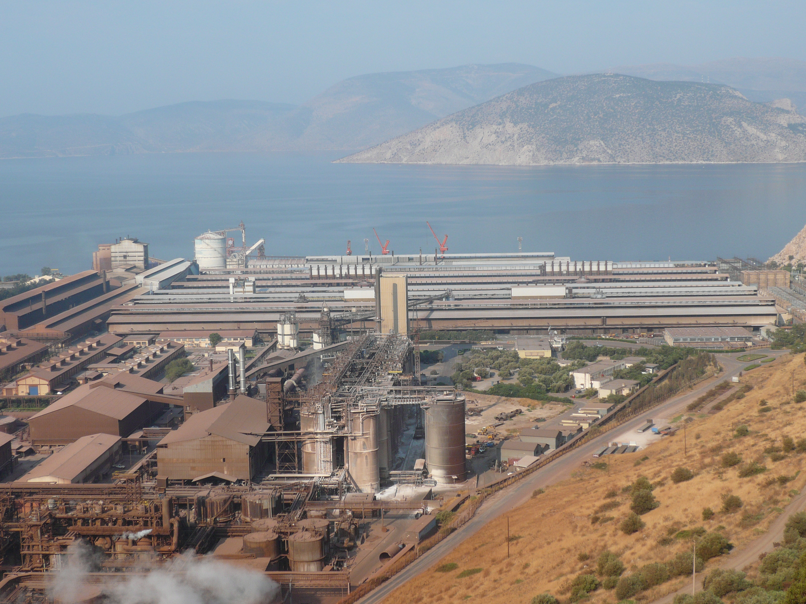 Aluminium de Grece, Greek aluminum company